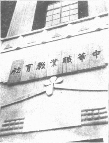 中华职业教育社 1934 门楼